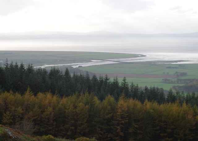 The Roe estuary Looking down from Binevenagh across the Magilligan plain towards Lough Foyle and the tidal mudflats of the Roe Estuary Nature Reserve.